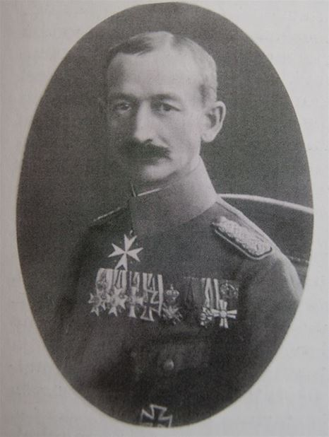 The German major Godert von Reden (d. 22nd January, 1919, suecide).